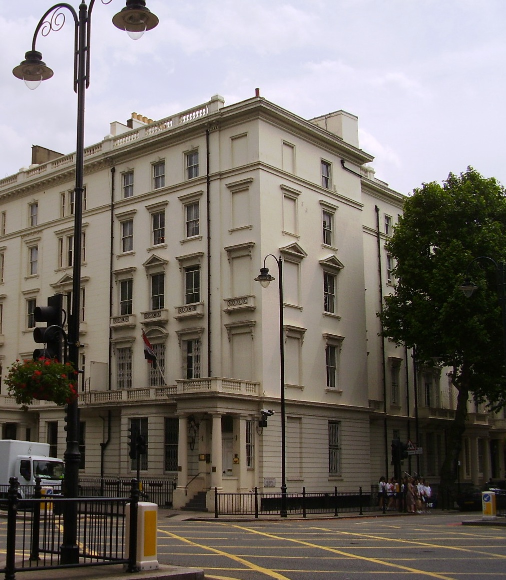 Embassy of Yemen in London.